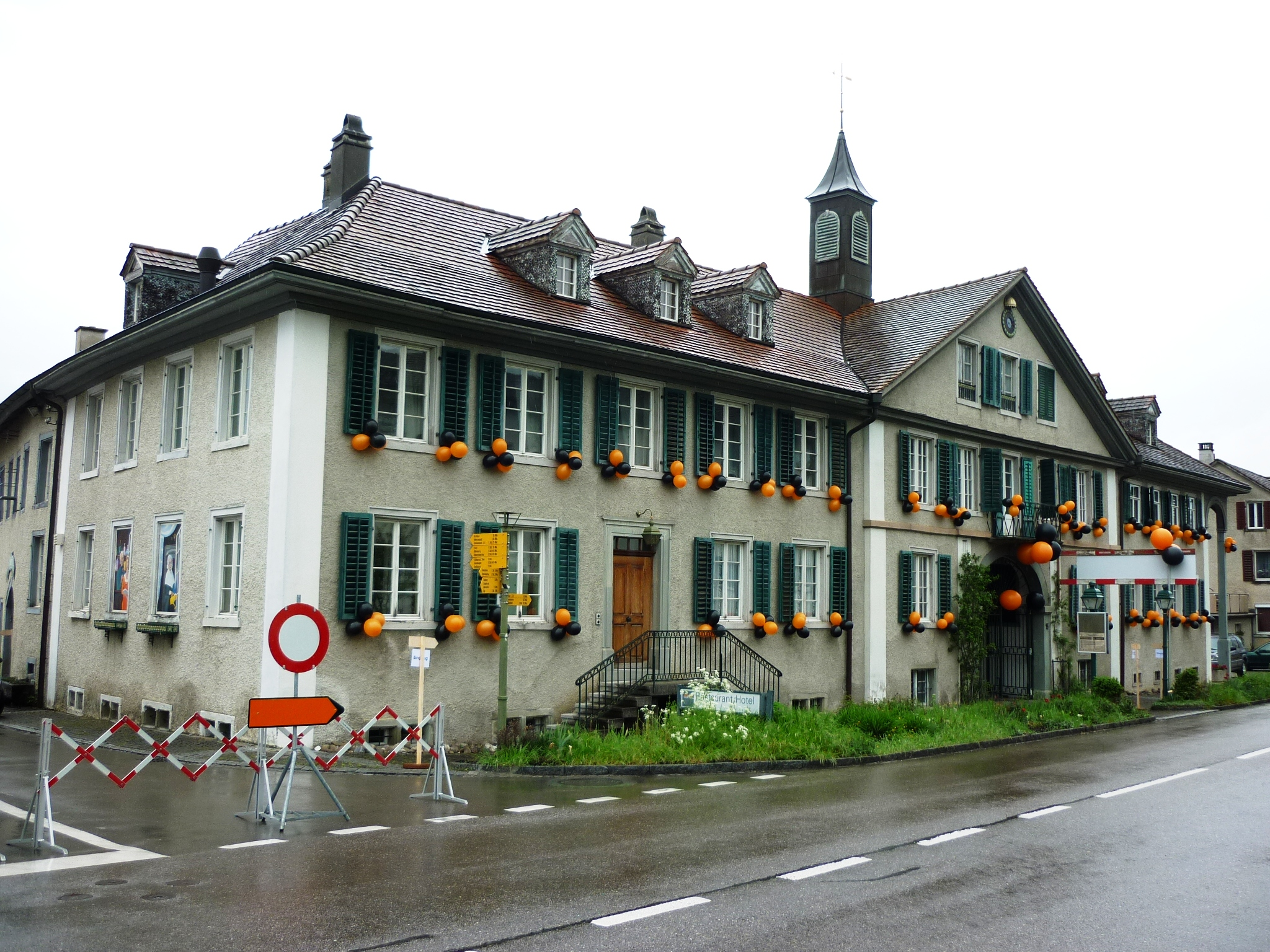 Greuterhof, Islikon TG, Switzerland